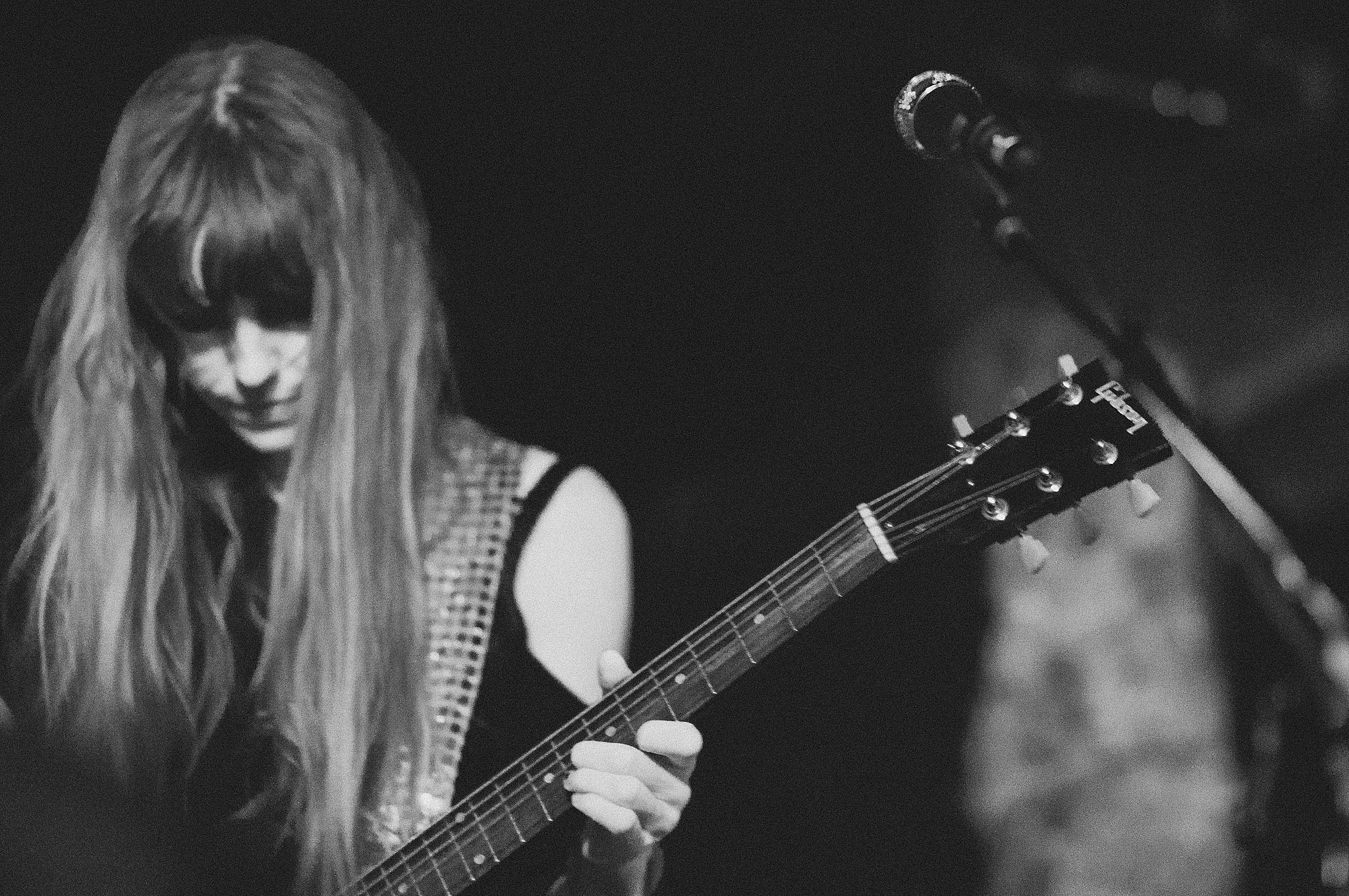 Singer and guitarist Emma Ruth Rundle at Bottom of the Hill, San Francisco, 2013